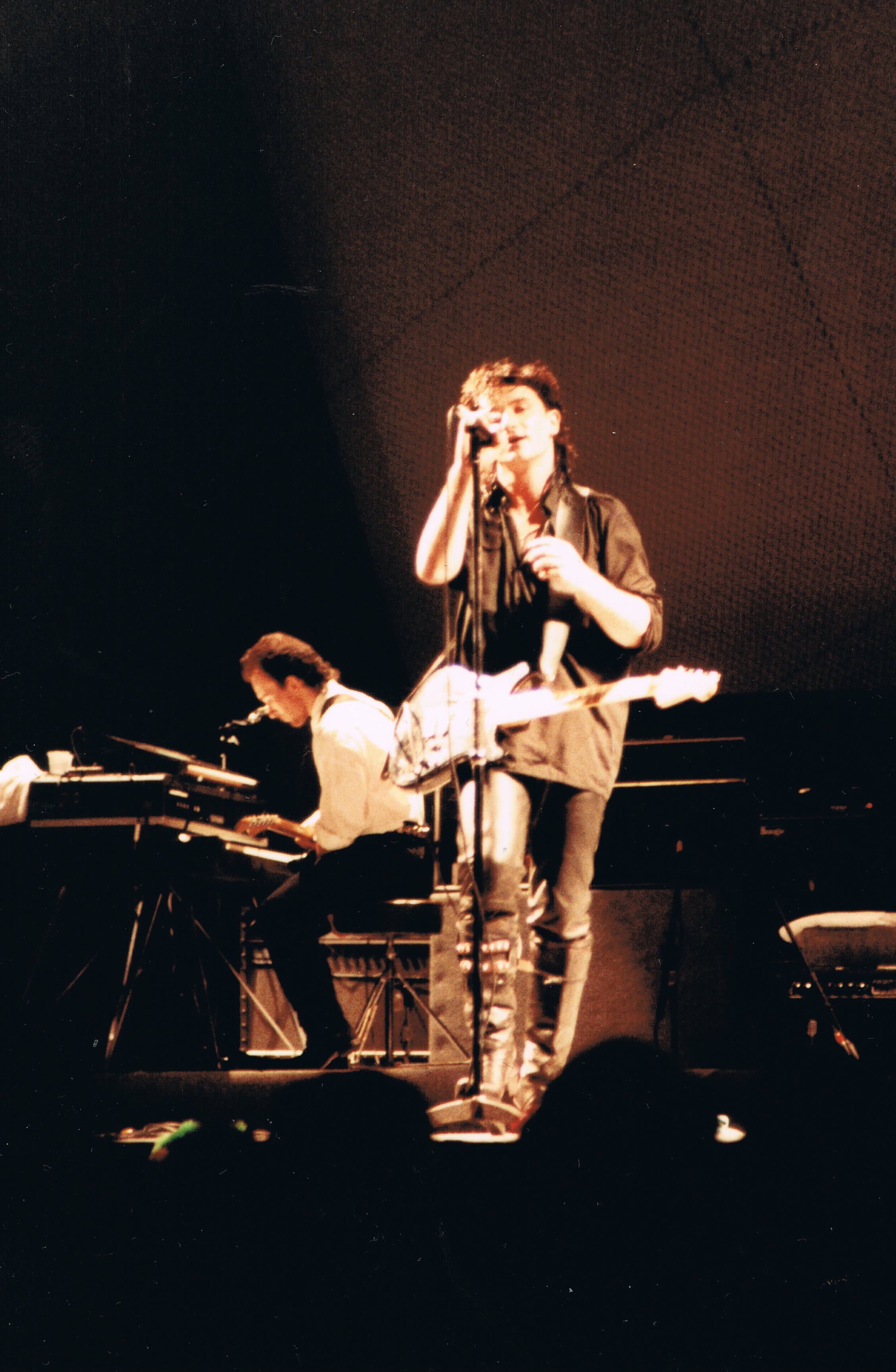 Bono and the Edge of Irish rock band U2 performing at Sydney Entertainment Centre in Sydney, Australia on September 9, 1984 during the group's Unforgettable Fire Tour